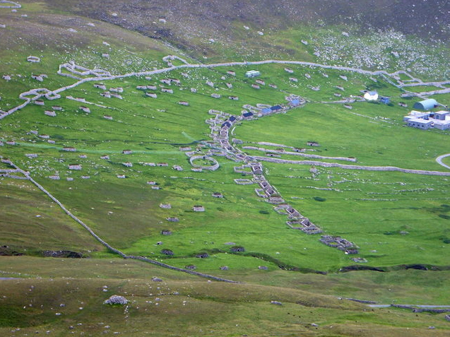 The Village, Hirta, St Kilda.